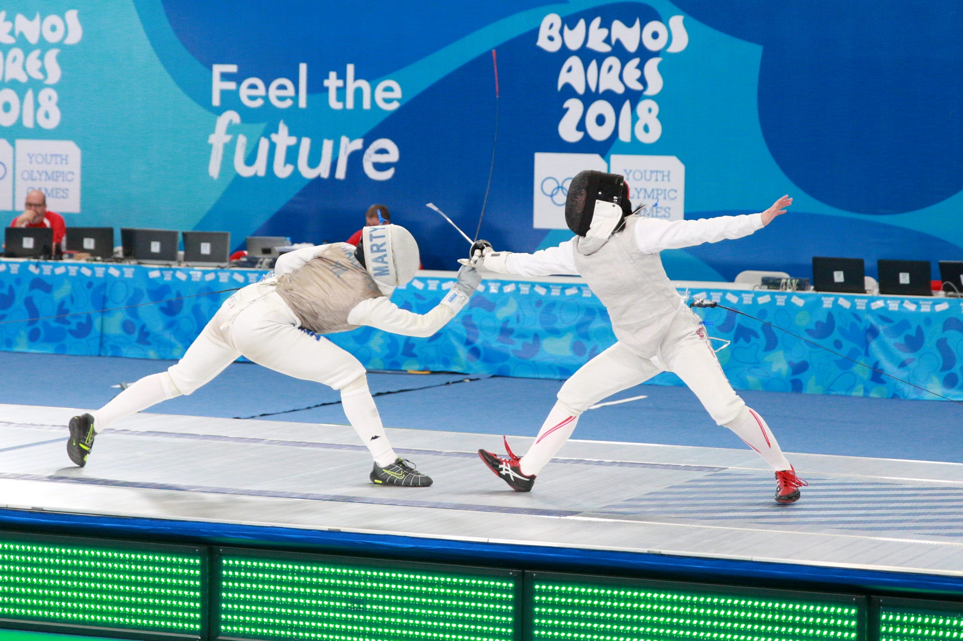 Fencing at the 2018 Summer Youth Olympics at 7 October 2018 – Girls' foil final – Yuka Ueno (JPN) Vs Martina Favaretto (ITA) 15:12